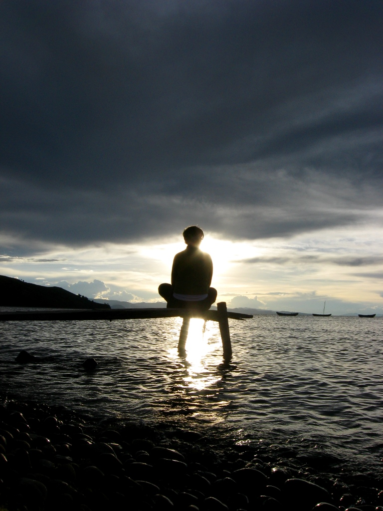 Yoga meditating woman in Bolivia